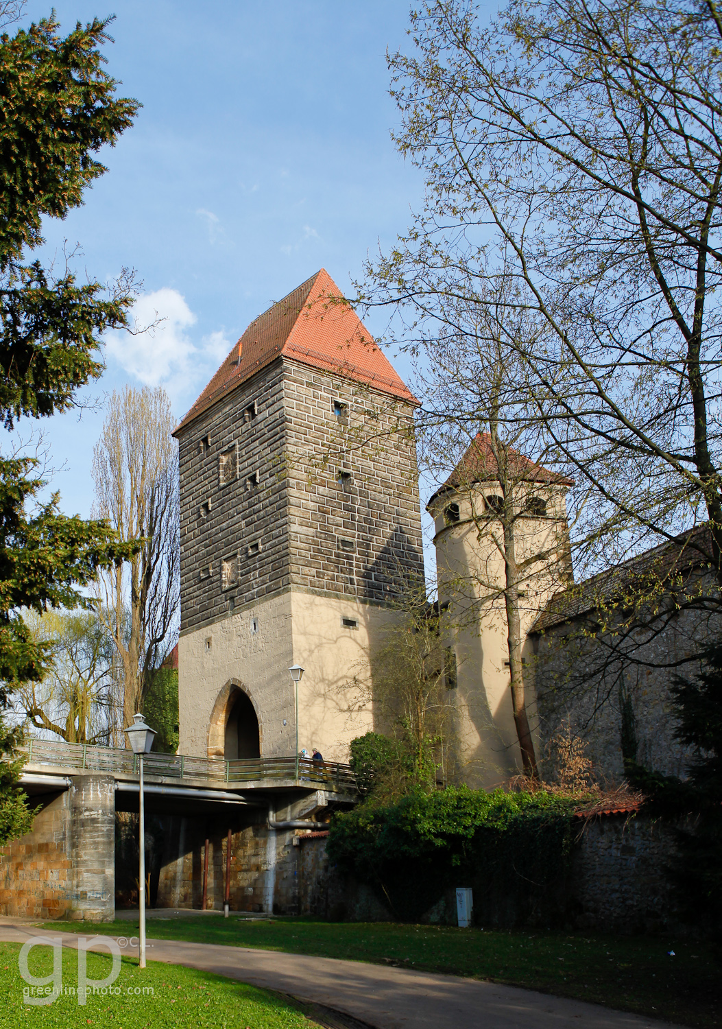 This is a photograph of an architectural monument.